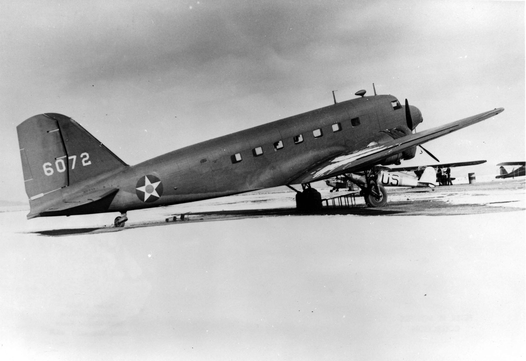 Douglas C-33 (S/N 36-72)